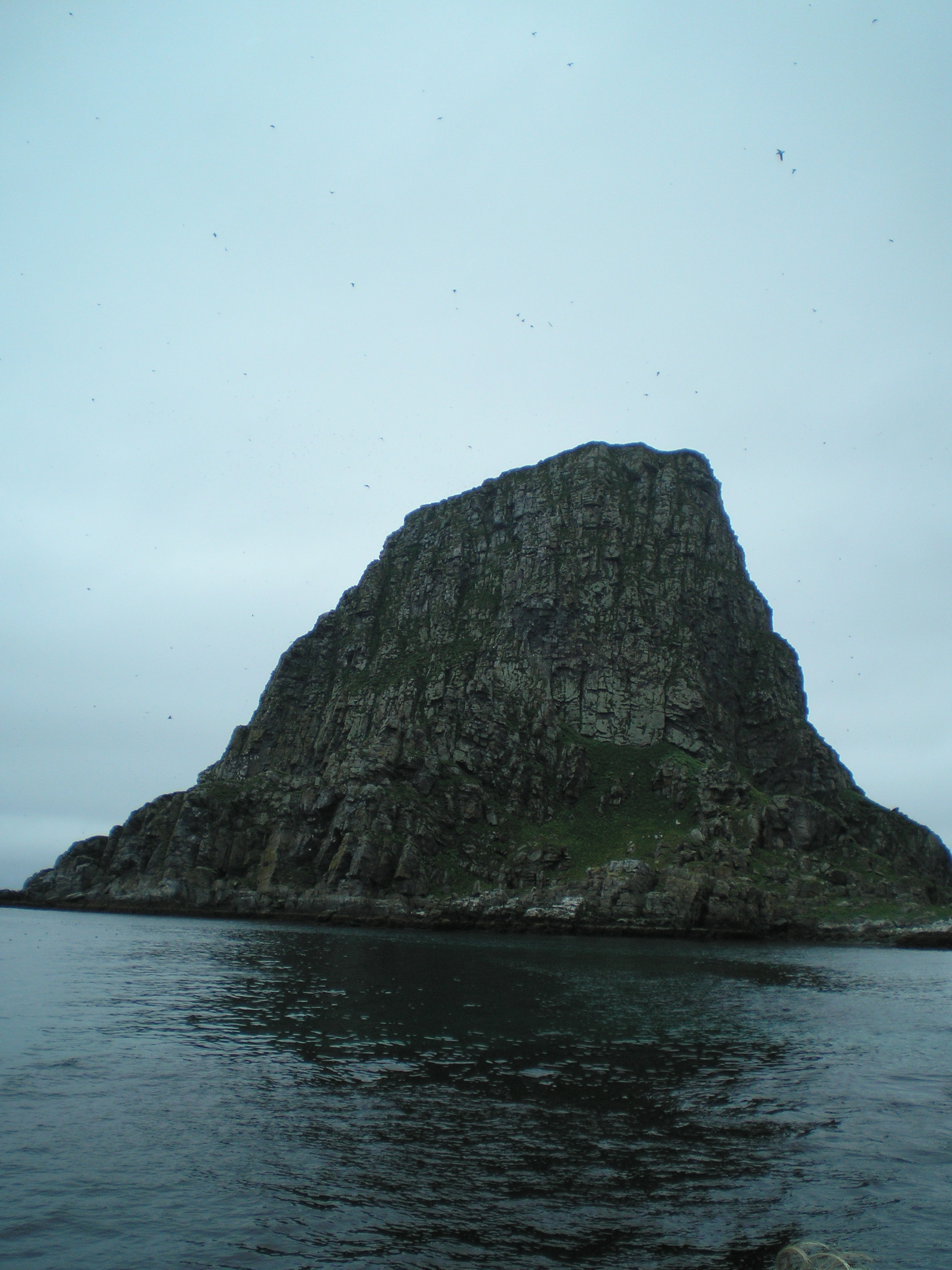 Stauren in Gjesværstappan, near Gjesvær, in Nordkapp, Norway.